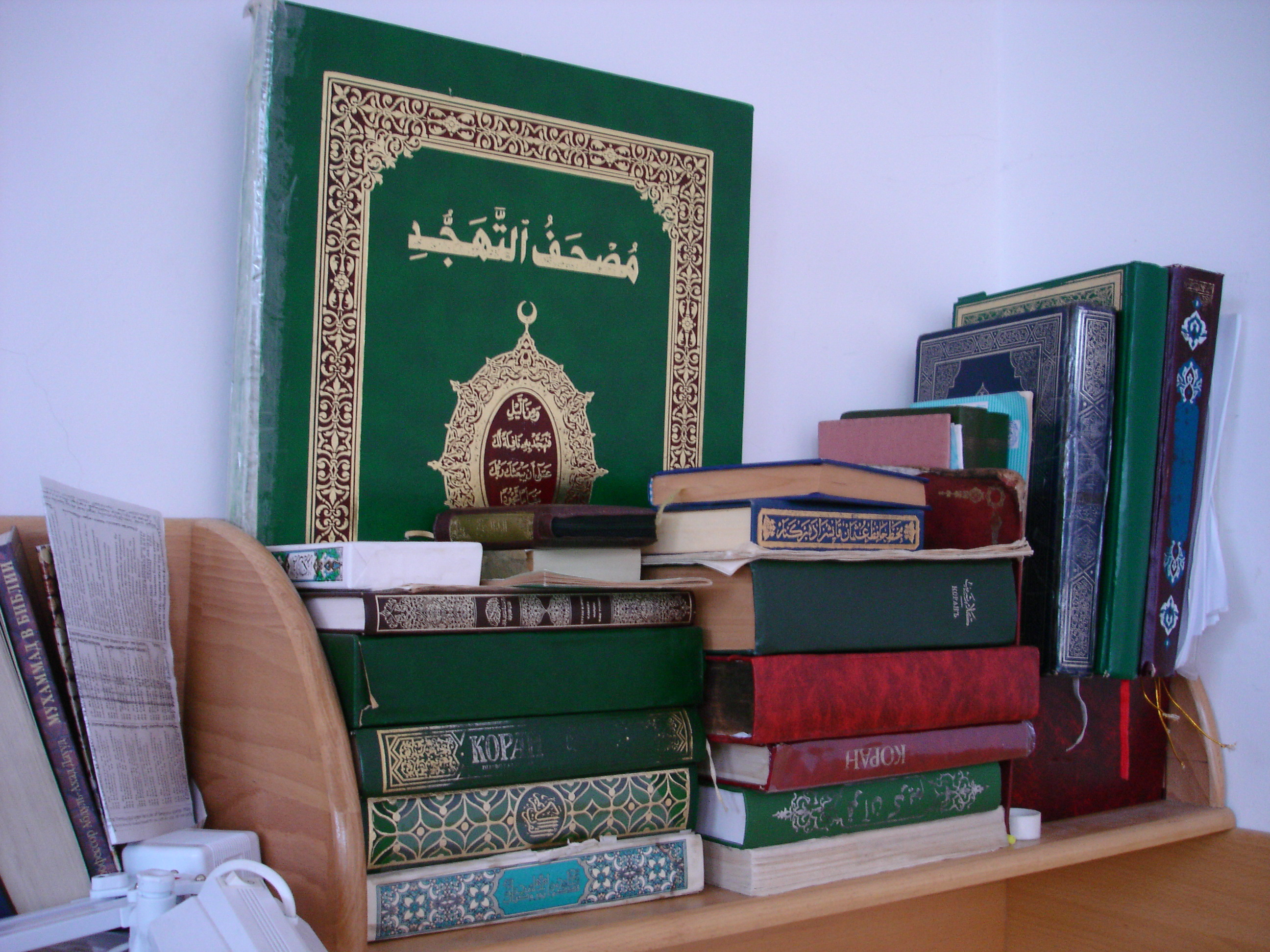 Koran